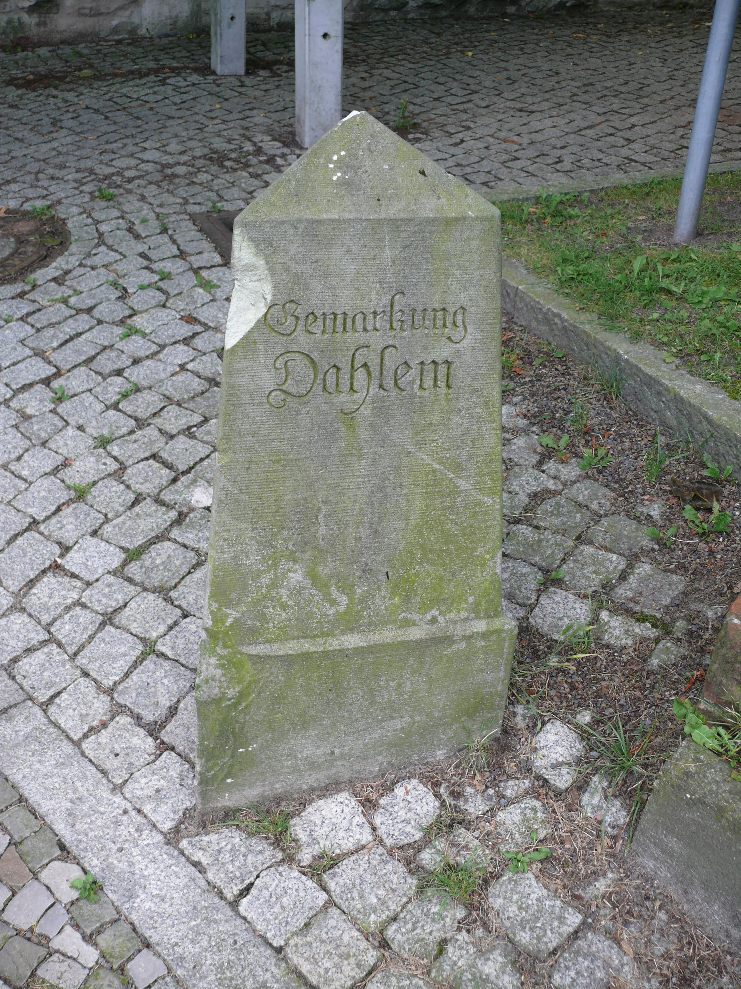 Boundary-stone between former parish (Gemarkung) Dahlem und Steglitz at the intersection Königin-Luise-Straße/Grunewaldstraße